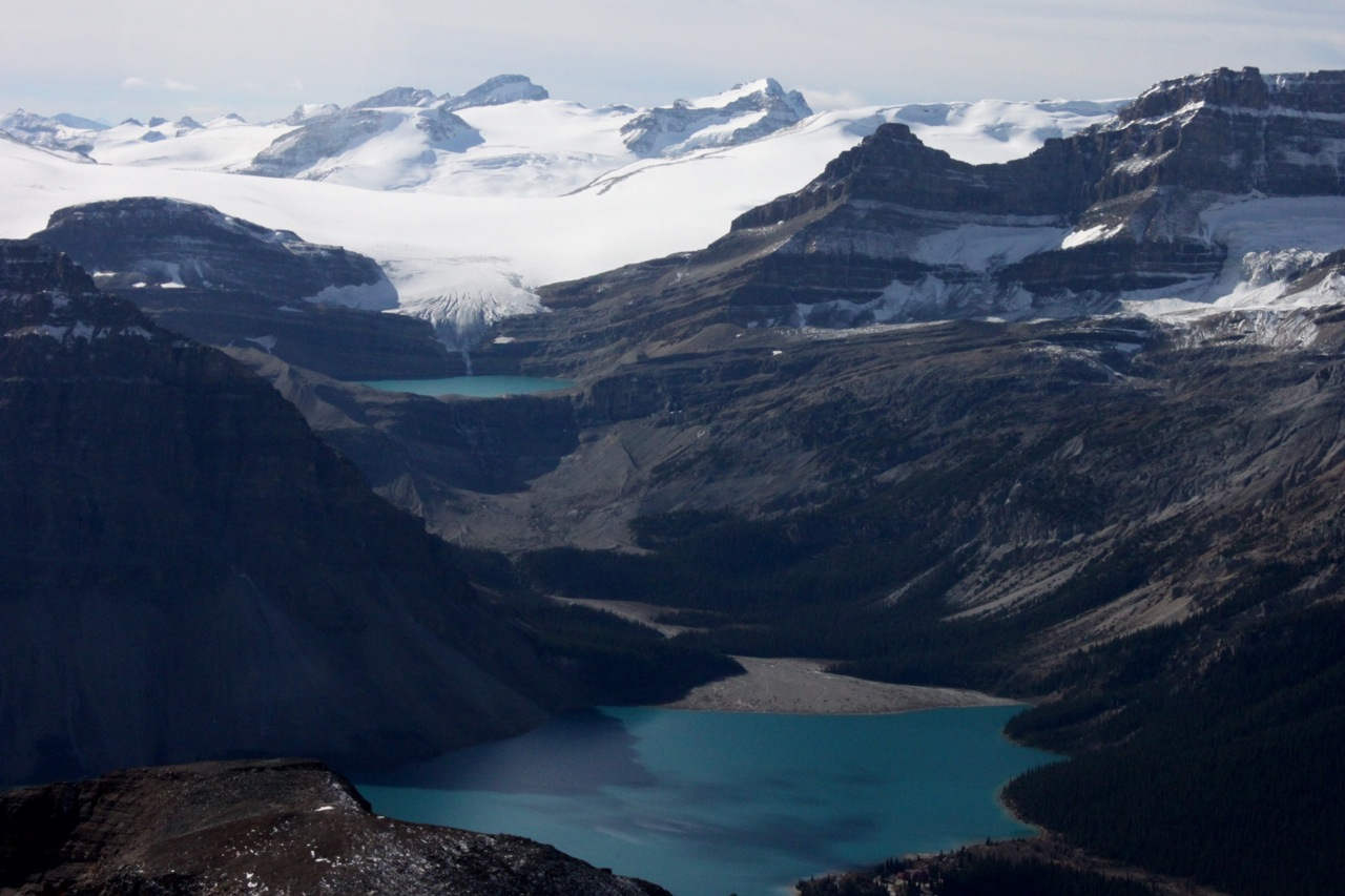 Bow Lake, Bow Glacier, Portal Peak, Mount Thompson, and Wapta Icefield seen from Cirque Peak. Banff Park, AB, Canada